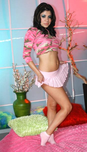 Sativa Rose on set Britney Rears 4 from Hustler, February 22, 2007.